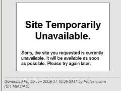 Screenshot of error message when attempting to load on January 25, 2008. Source: NBC11 staff, "Hacker Group Declares War On Scientology", (January 25, 2008) KNTV, NBC Universal, Inc., retrieved 2008-01-25.